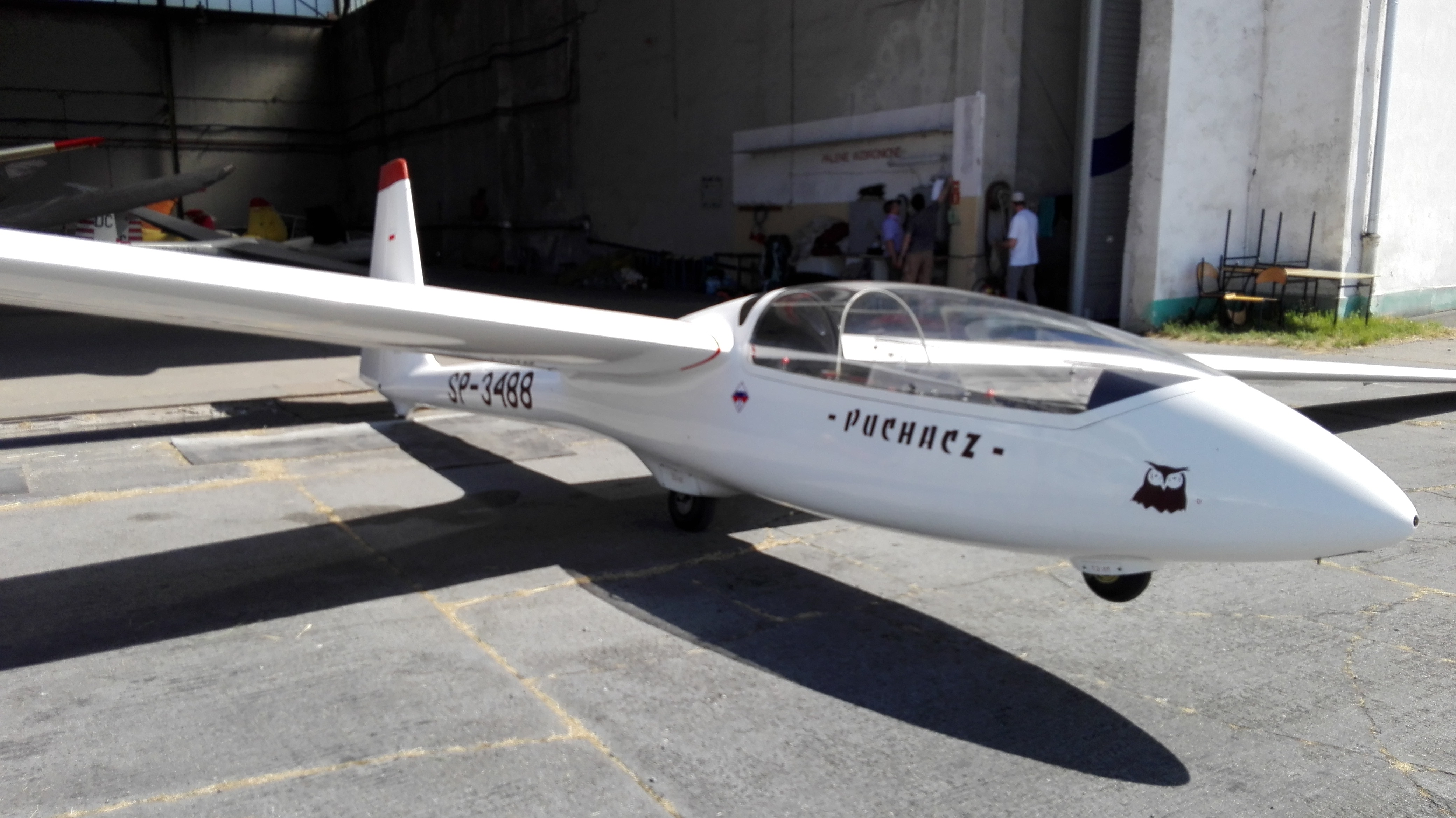 SZD-50 Puchacz-3 A